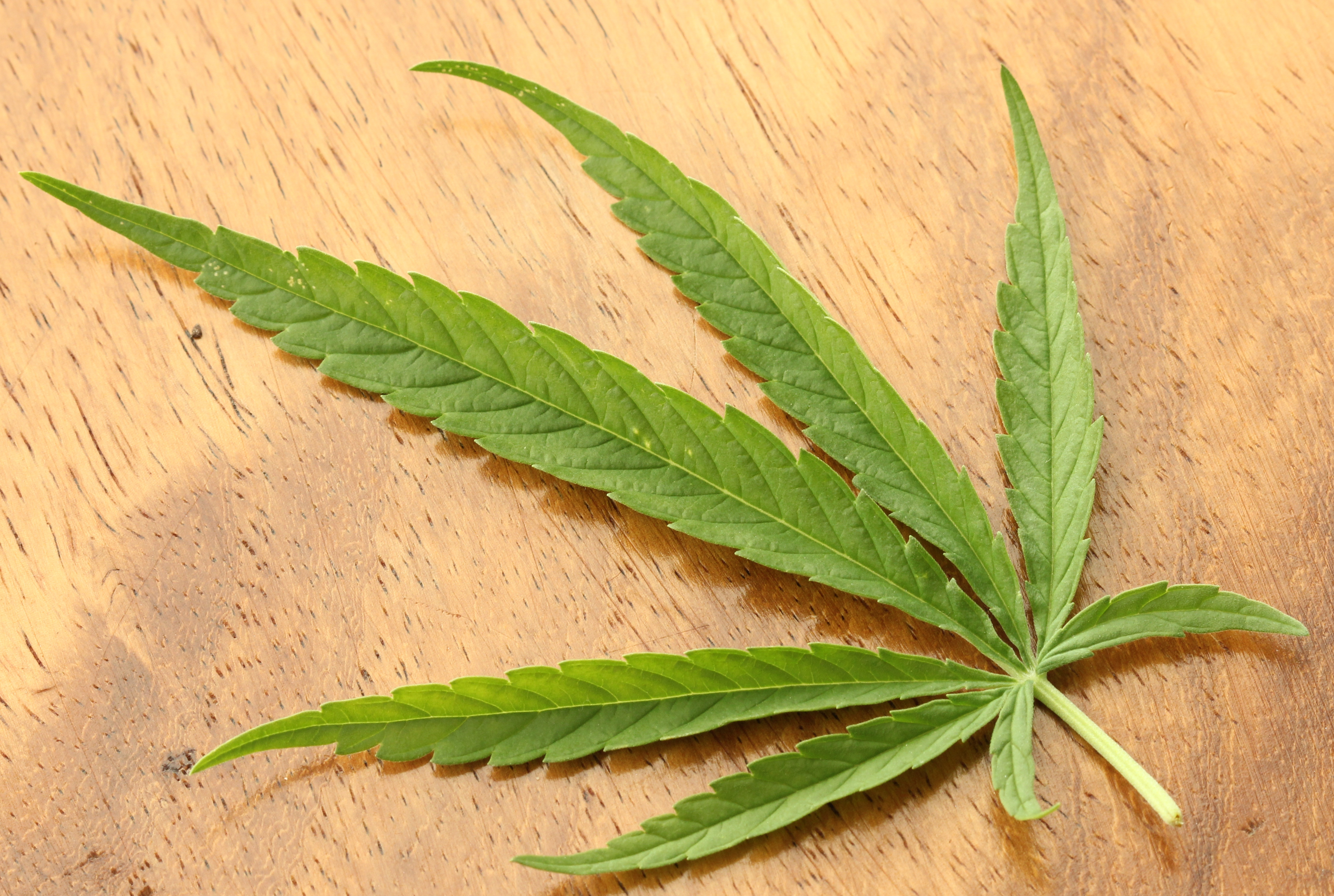 Cannabis sativa leaf Dorsal aspect